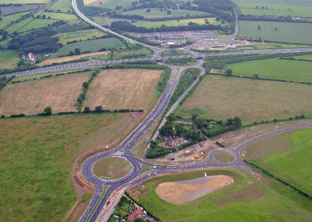 Thickthorn Interchange – Norwich Southern Bypass runs left to right. A11 runs top to bottom.